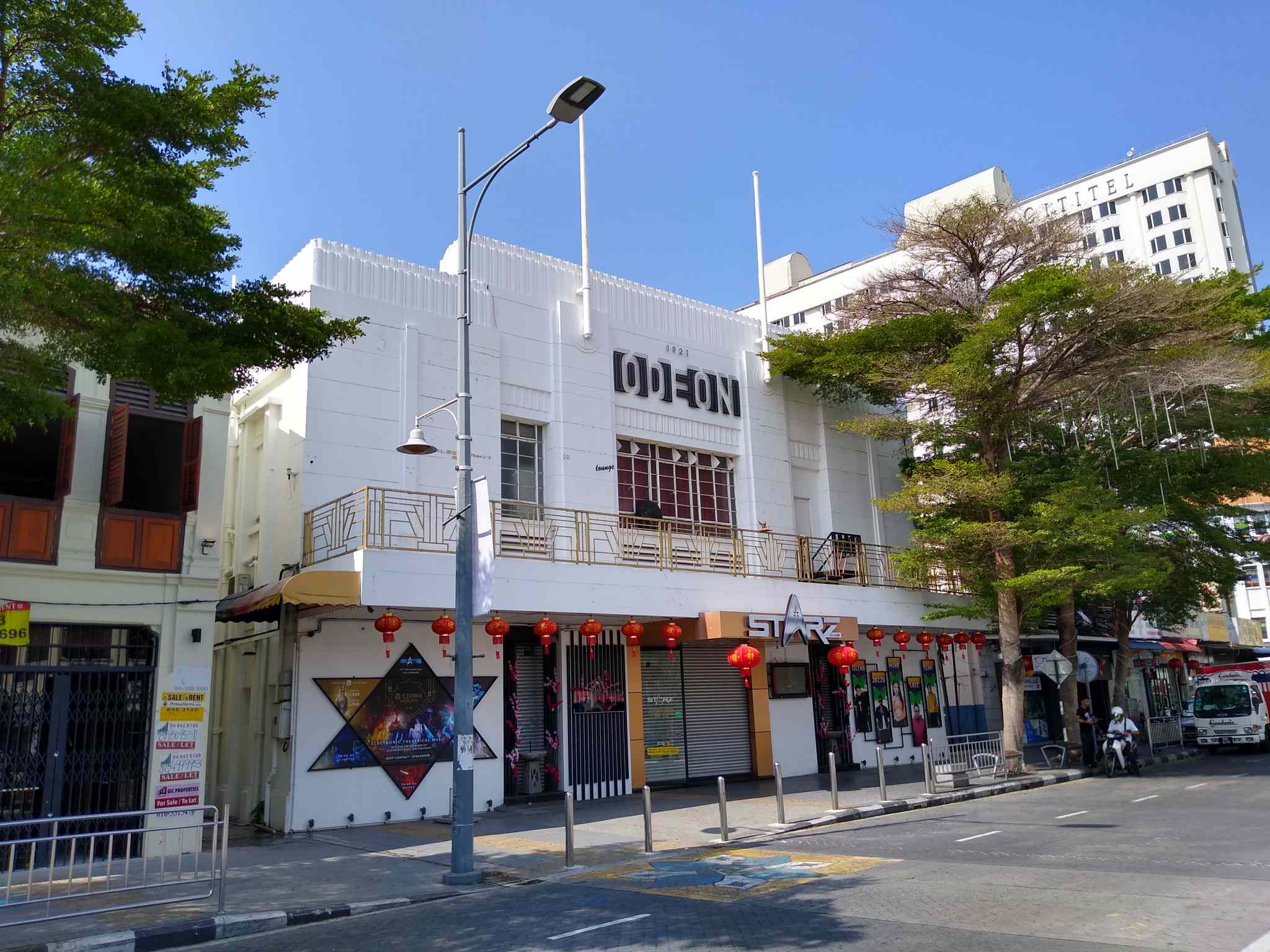 Penang Odeon cinema in January 2020.